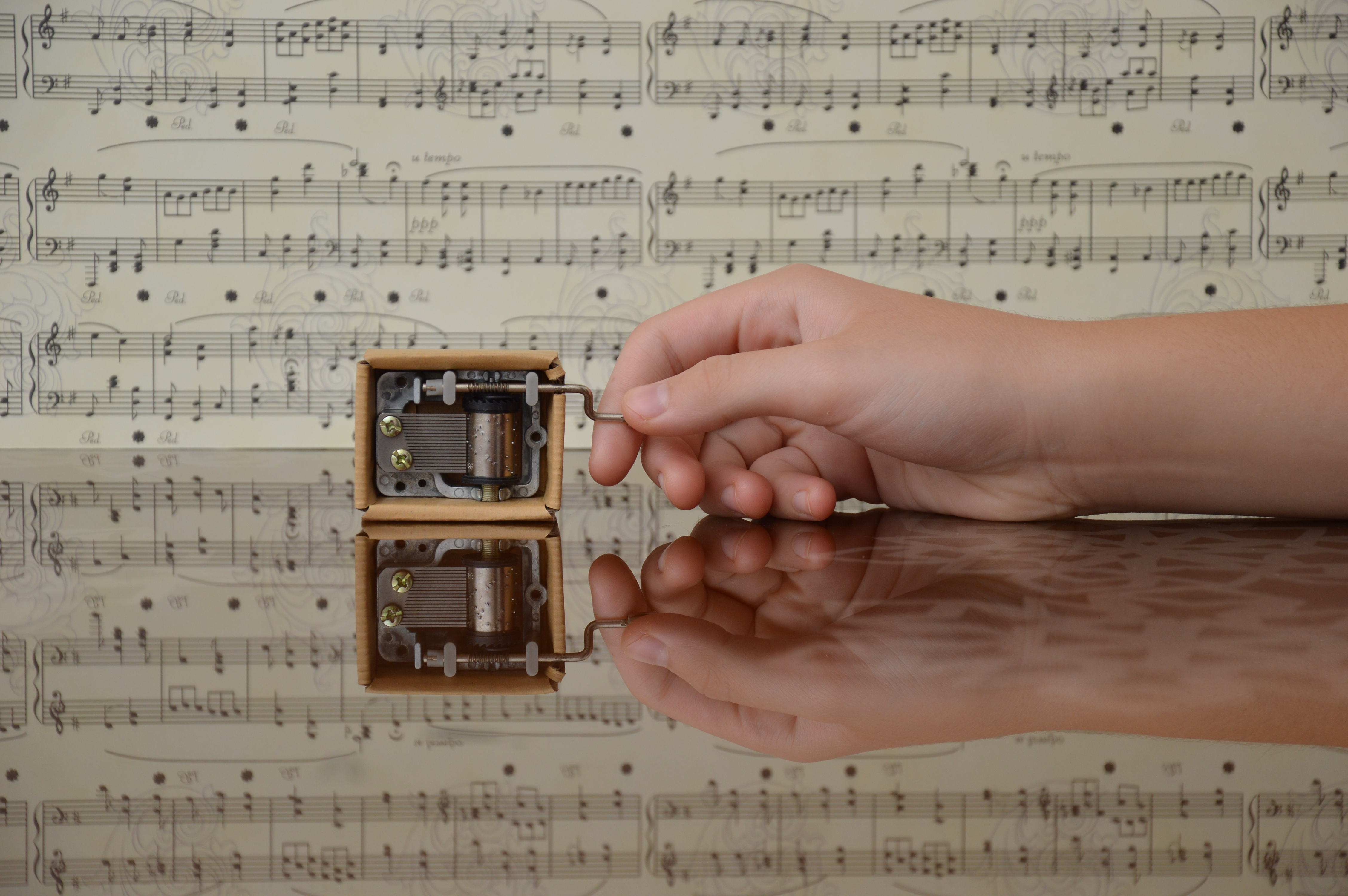 A small music box playing ... music!